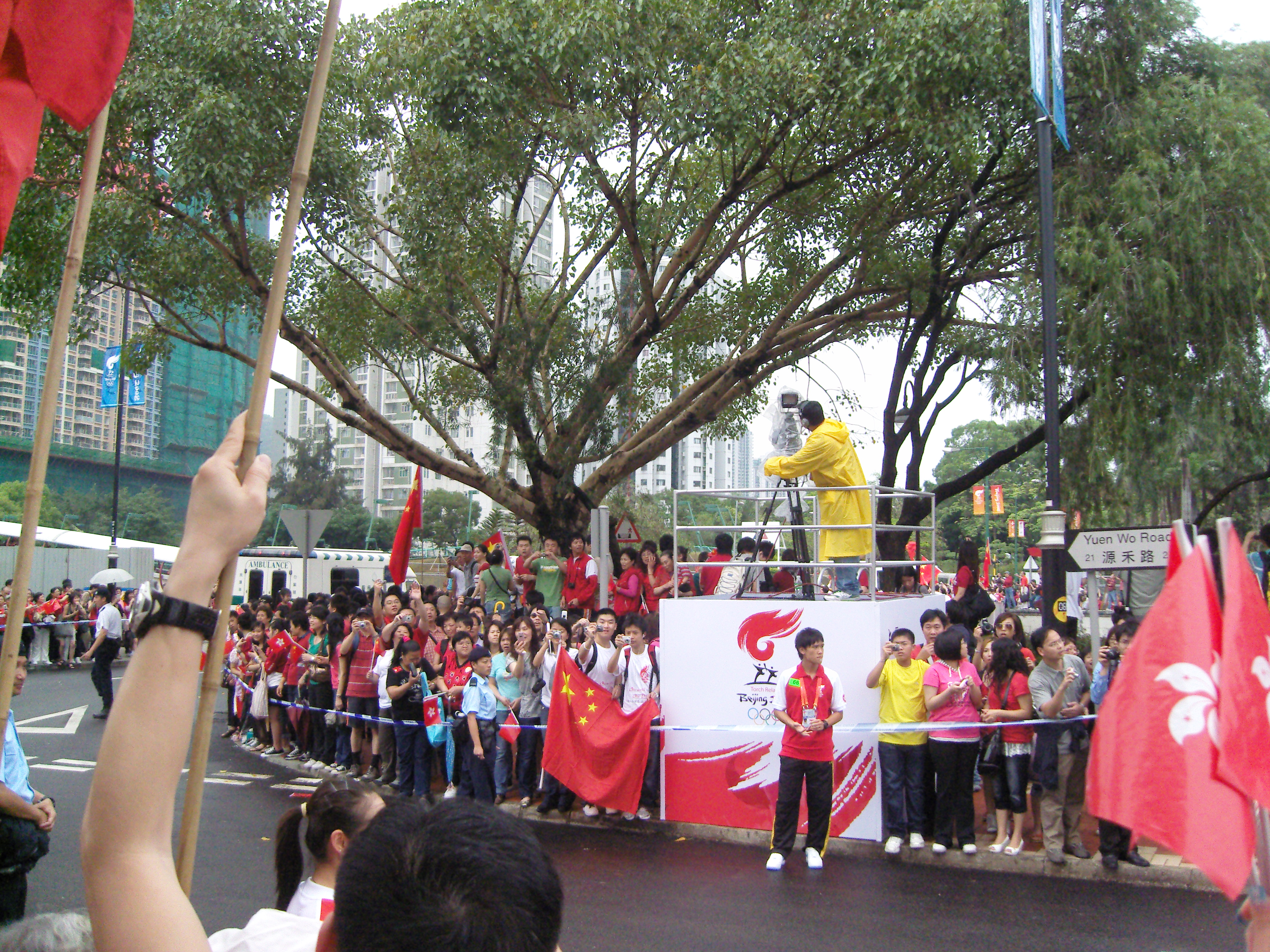 2008 Summer Olympics Torch in Shatin, Hong Kong.